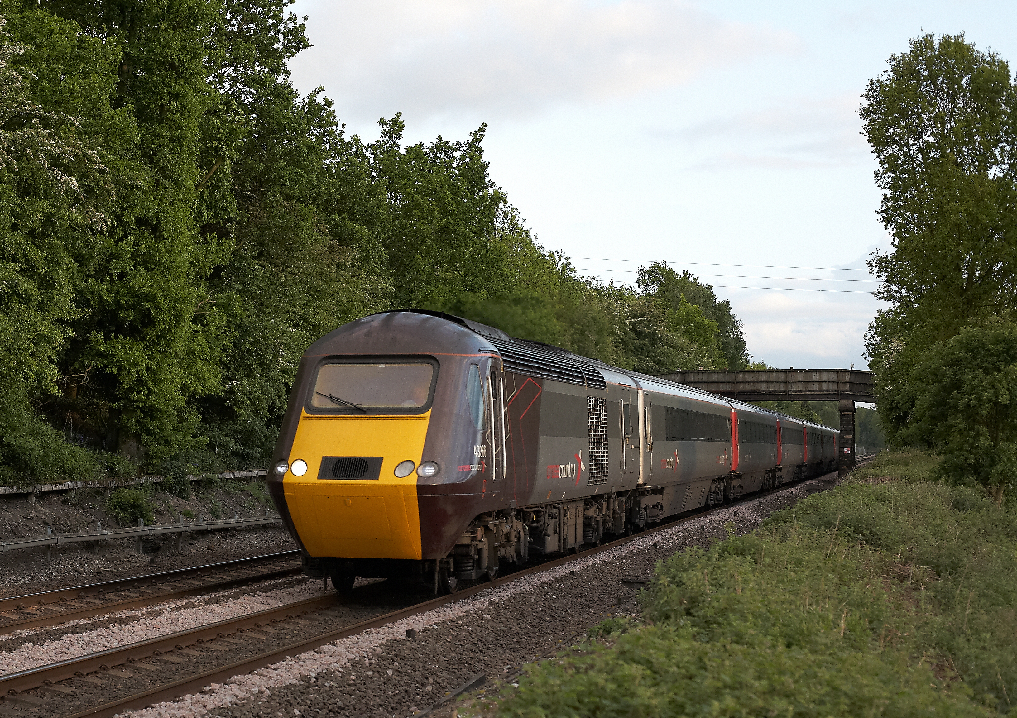 43366 passes South Wingfield with a AXC service . The HST makes an interesting comparison with the A4 in the previous shot......We have come a long way in 75 years...!!